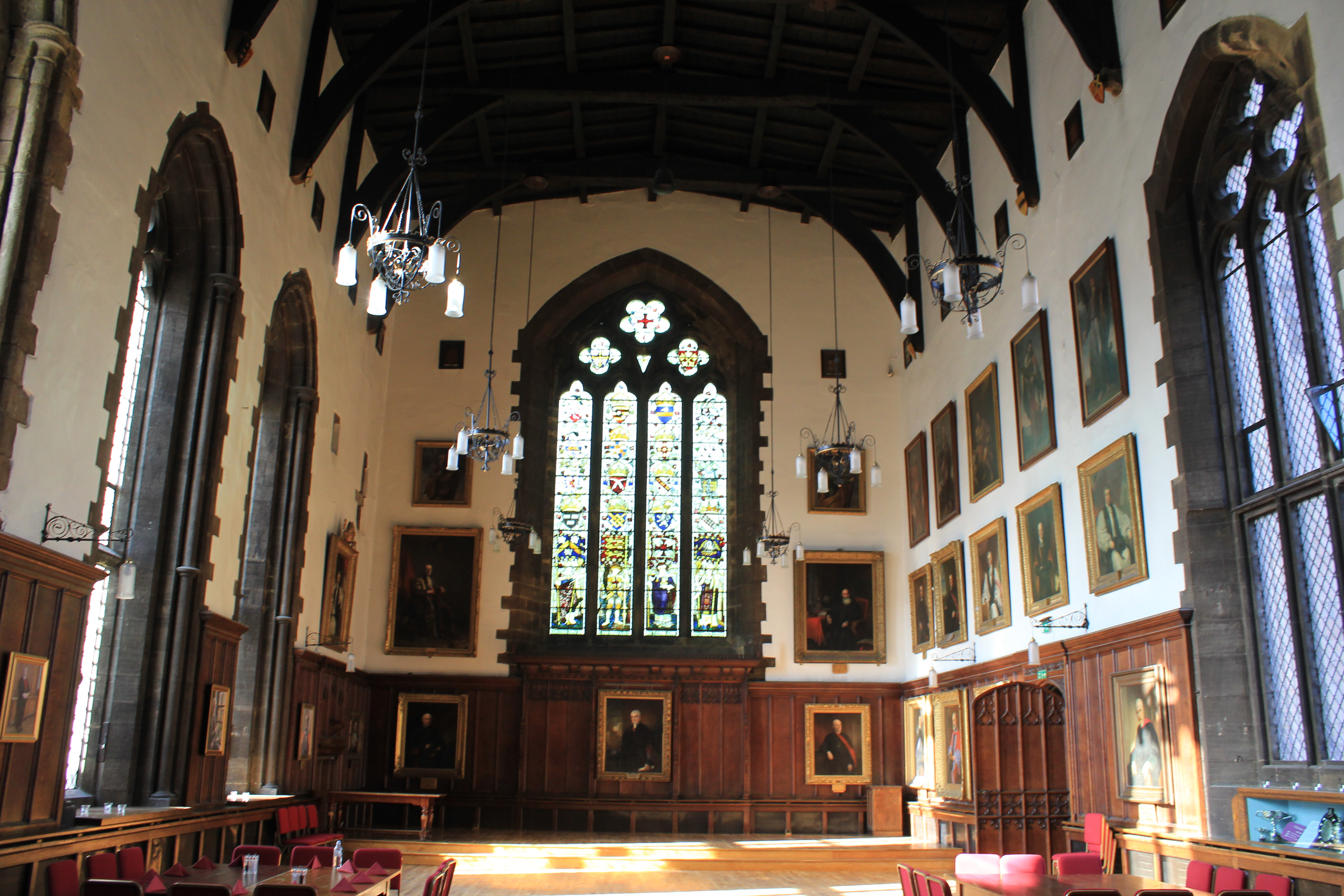 Durham Castle, April 2017 (12) This file was generated using equipment from Wikimedia UK, a Wikimedia local chapter.